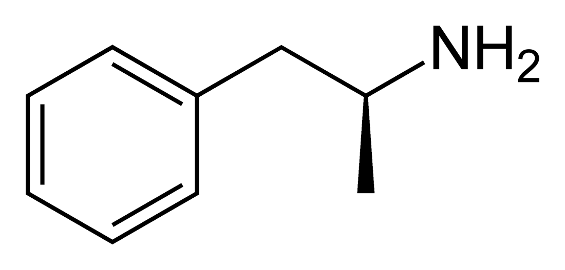 Dextroamphetamine structure